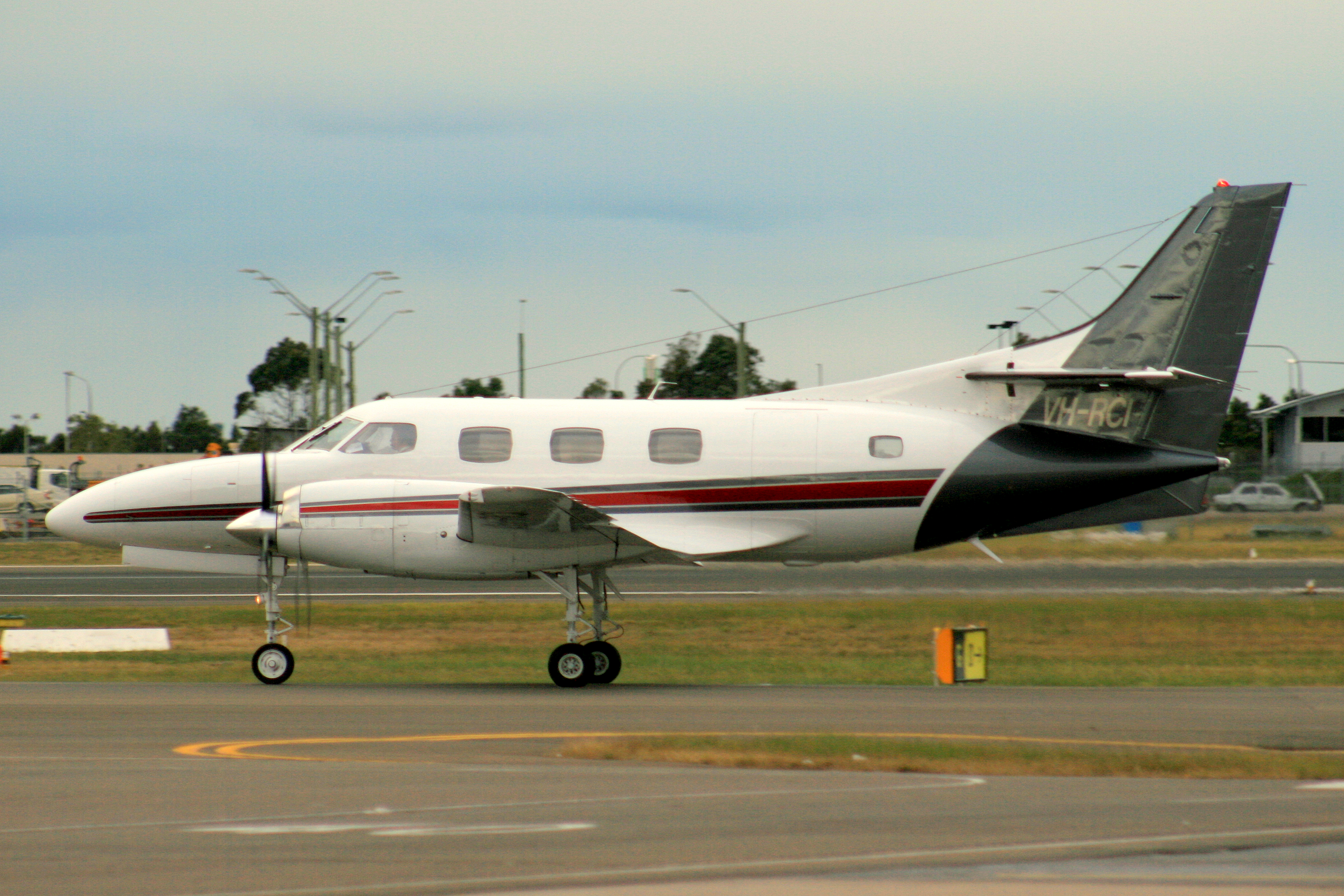 Fairchild SA227-TT Merlin IIIC VH-RCI at Sydney Airport. Digital photo of VH-RCI taken by YSSYguy on June 27 2007 & uploaded for use in Swearingen Merlin article.